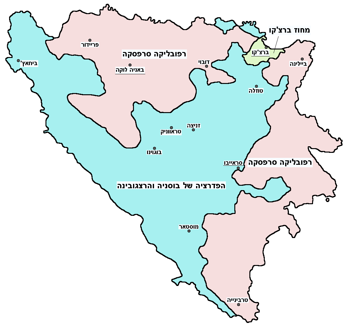 Federation of Bosnia and Herzegovina, Republika Srpska and Brčko district.